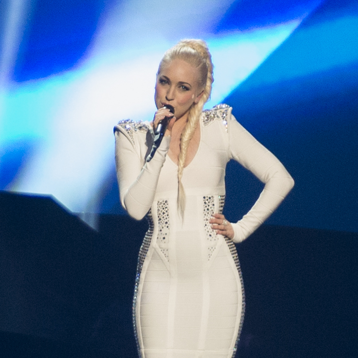 Margaret Berger representing Norway with the song "I Feed You My Love" during the second dress rehearsal of the second semi final of the Eurovision Song Contest 2013 in Malmö. (Help translate this text)